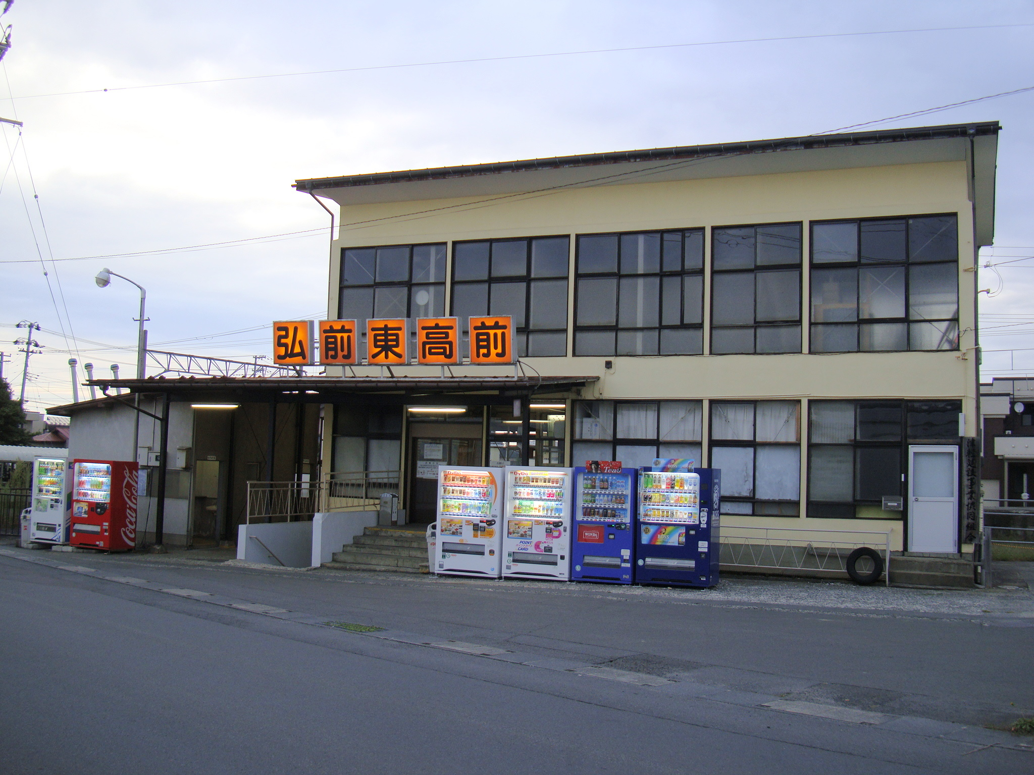 Hirosaki Higashikō-mae Station